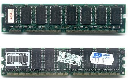 Crop from :Image:RAM n.jpg.